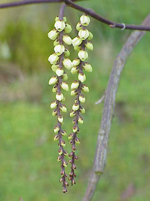 Species: Stachyurus chinensis Family: Stachyuraceae Image No. 1